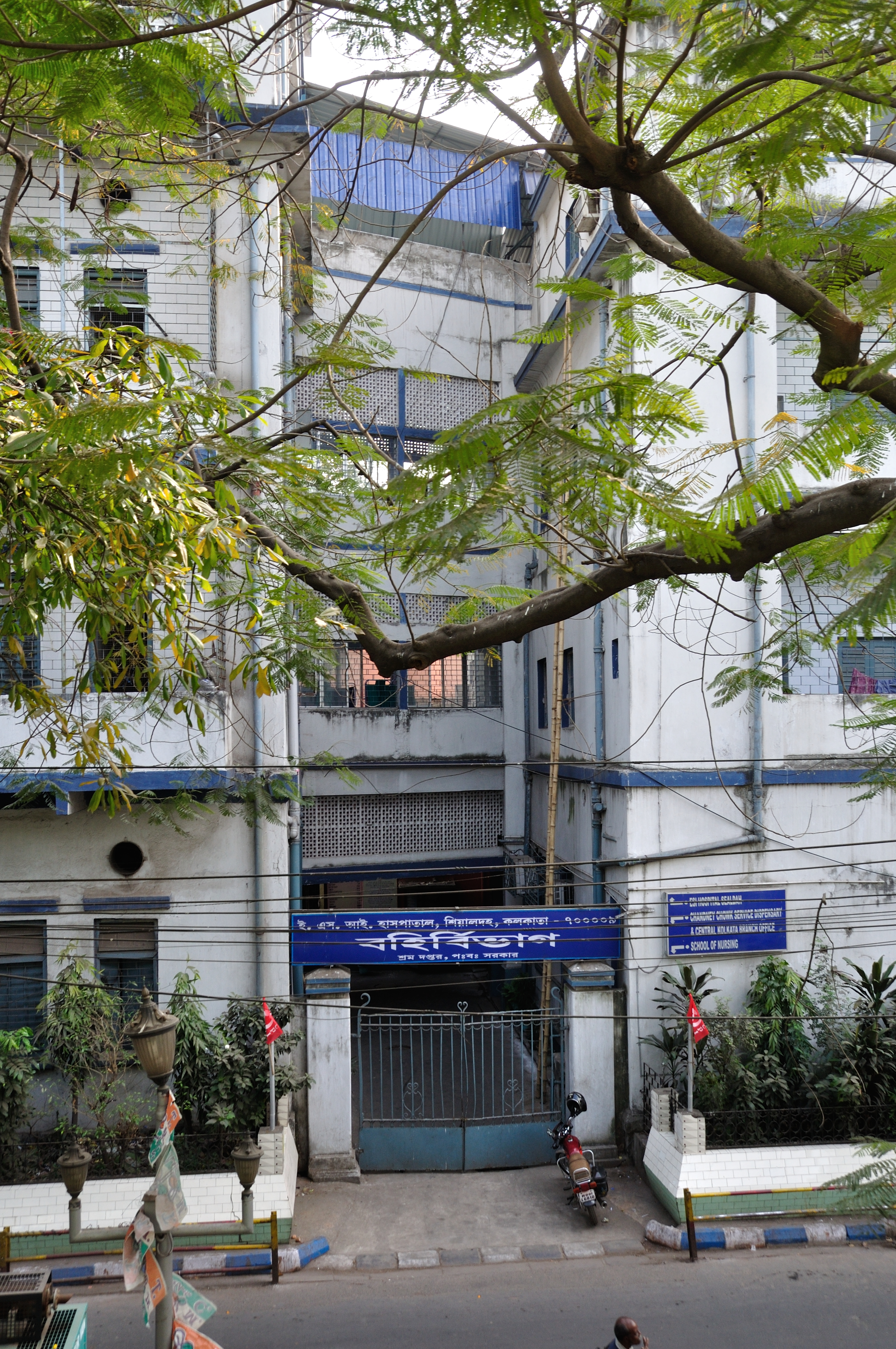 Photographed in Kolkata.